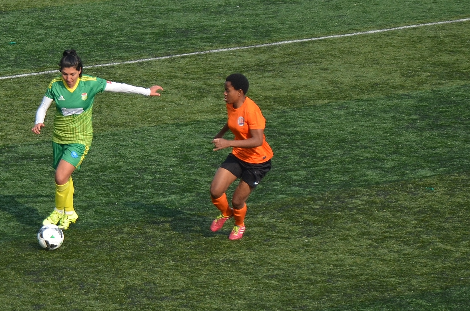 Jacquette Ada playing for 1207 Antalya Muratpaşa Belediyespor in the 2015-16 season's away match against Kireçburnu Spor